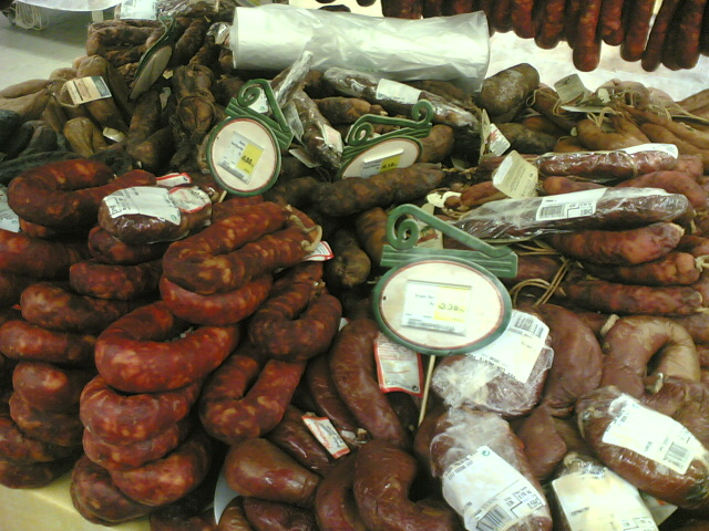 Portuguese sausages: chouriços and farinheiras.